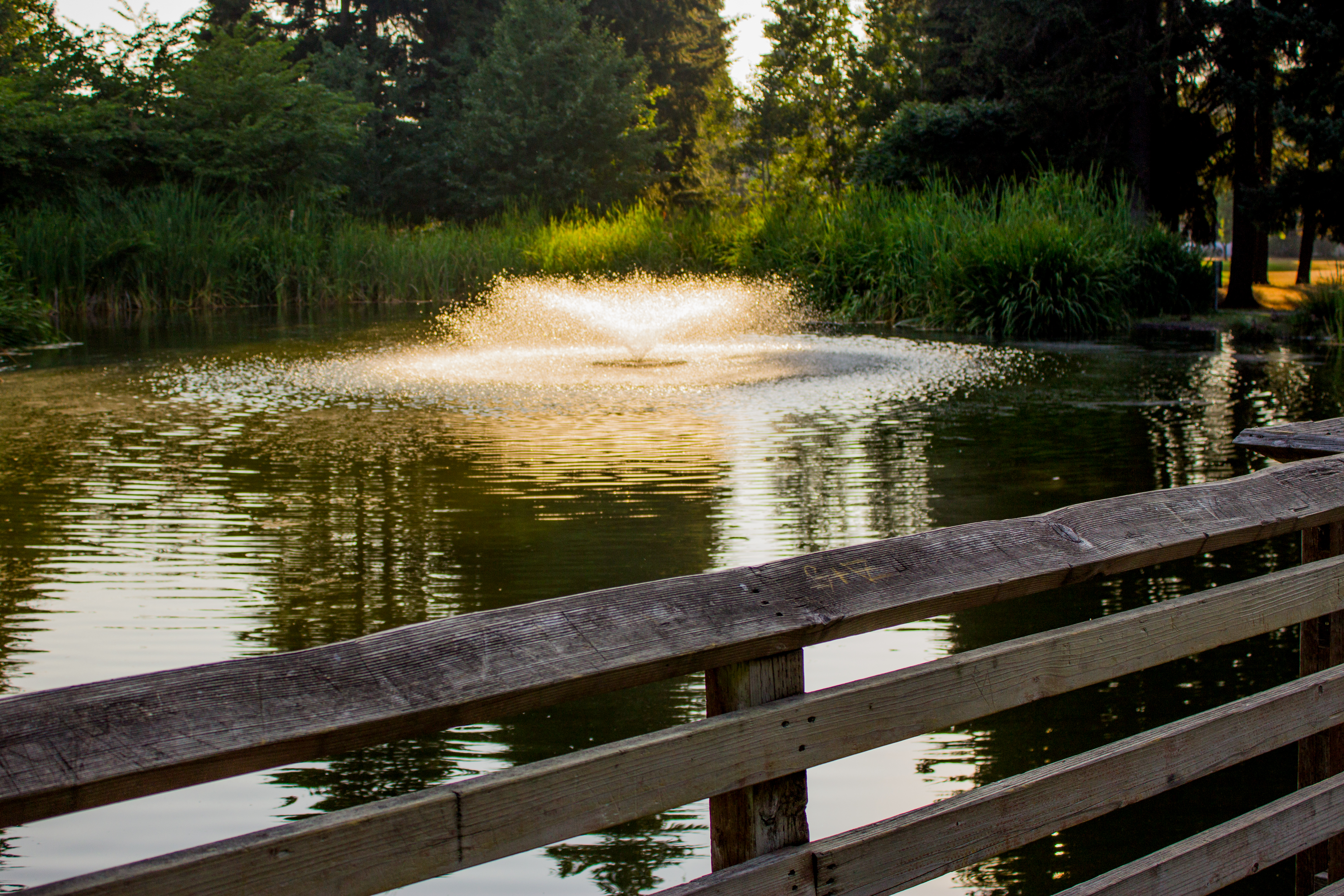 Cochrane Memorial Park is a water reclamation facility and municipal park located in Yelm, Washington. This images was shot from the dock, overlooking the fountain spraying in one of the park's several ponds.